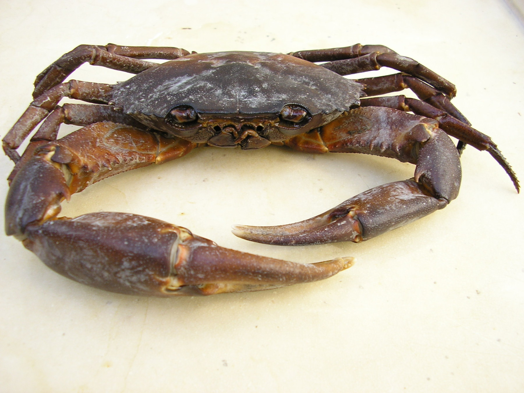 Dorsal view. From Juan Venado Island Natural Reserve, Nicaragua